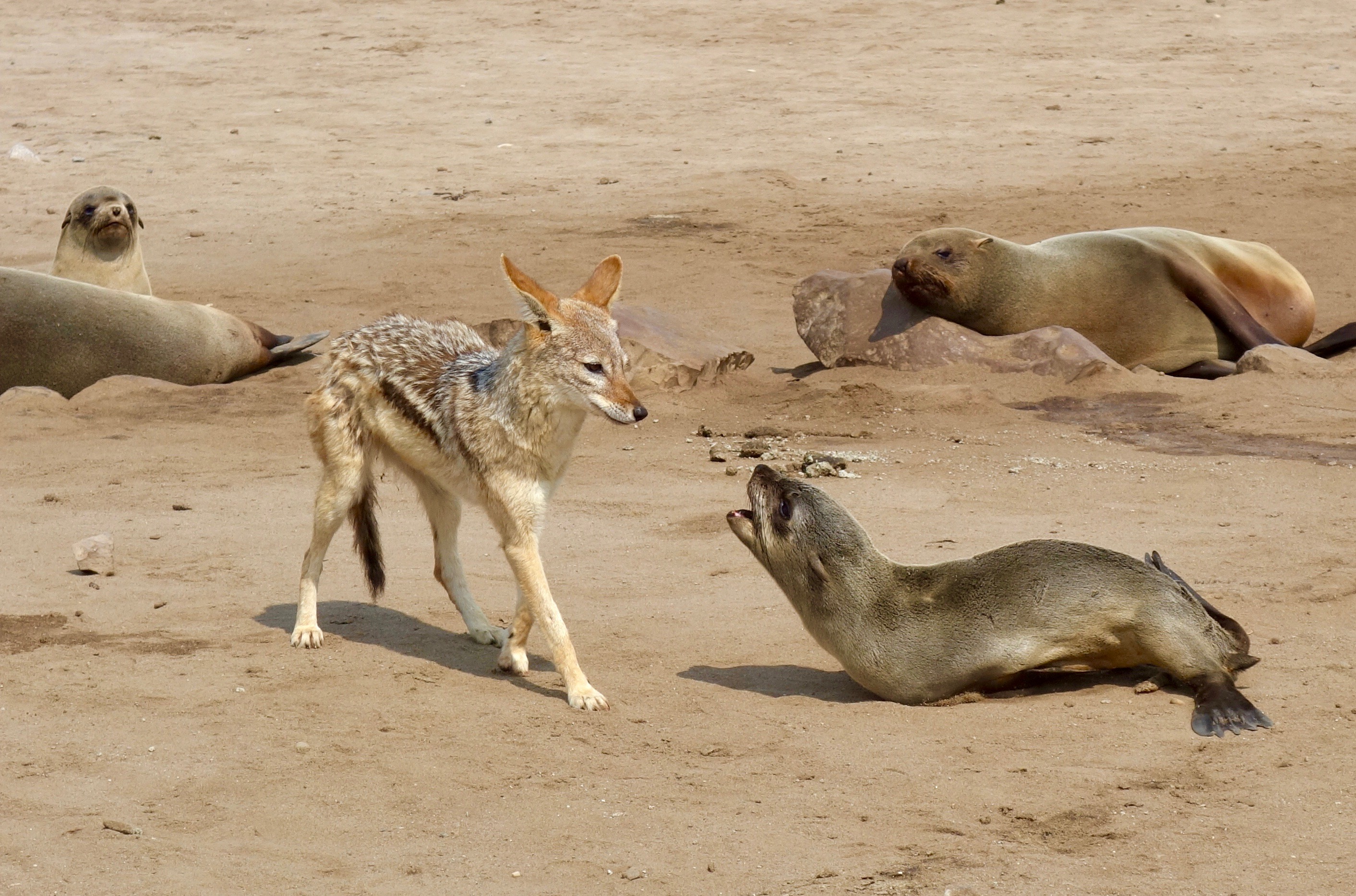 Black-backed jackal and brown fur seal, Cape Cross Seal Reserve, Namibia